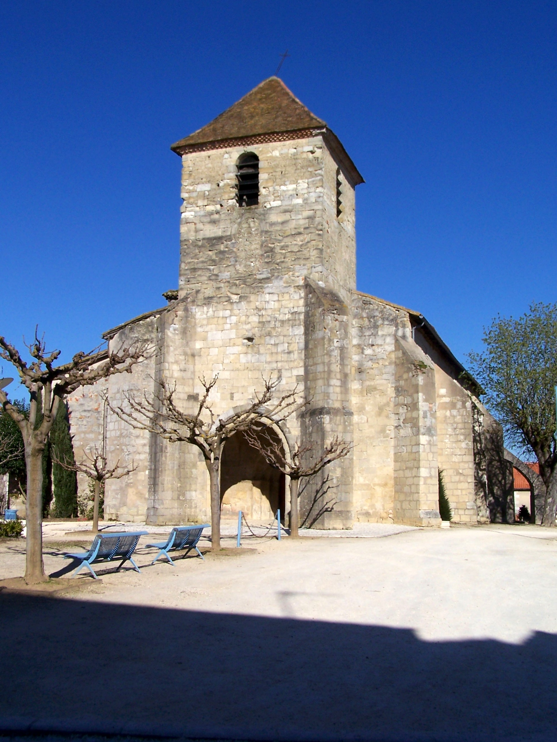 Church Saint Peter of Samazan (Lot-et-Garonne, France)